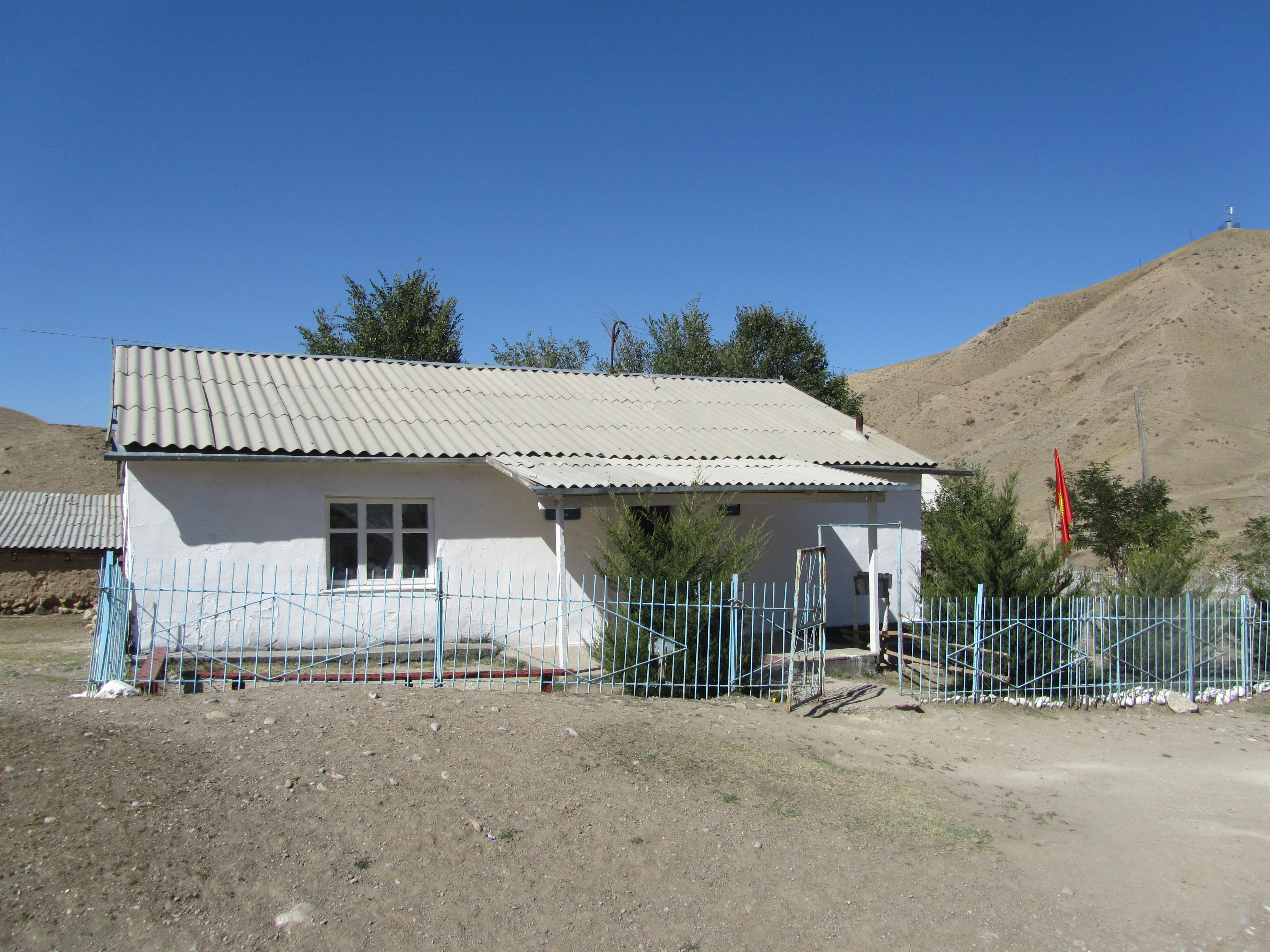 The main building of Gapar Usenov Elementary School. Leilek District, Kyrgyzstan.